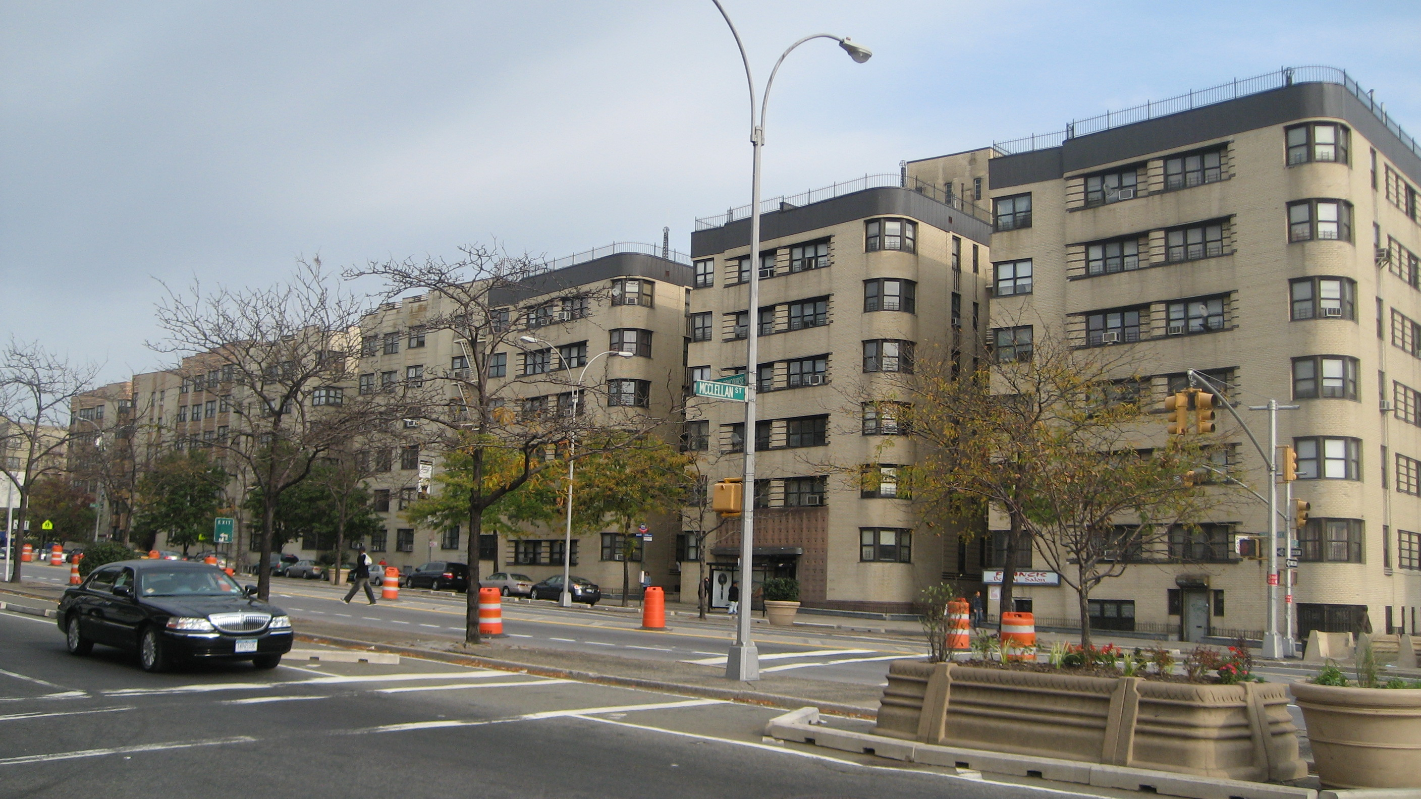 looking northeast at Grand Concourse and Mcclellan Street, Bronx